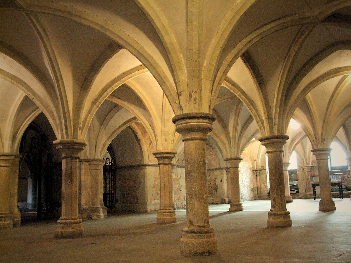 Rochester Cathedral, Rochester, England - Inside the crypt